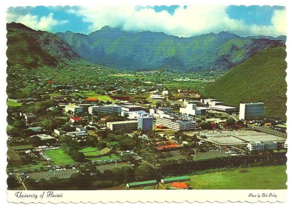 Vintage photo of University of Hawaii and Manoa Valley